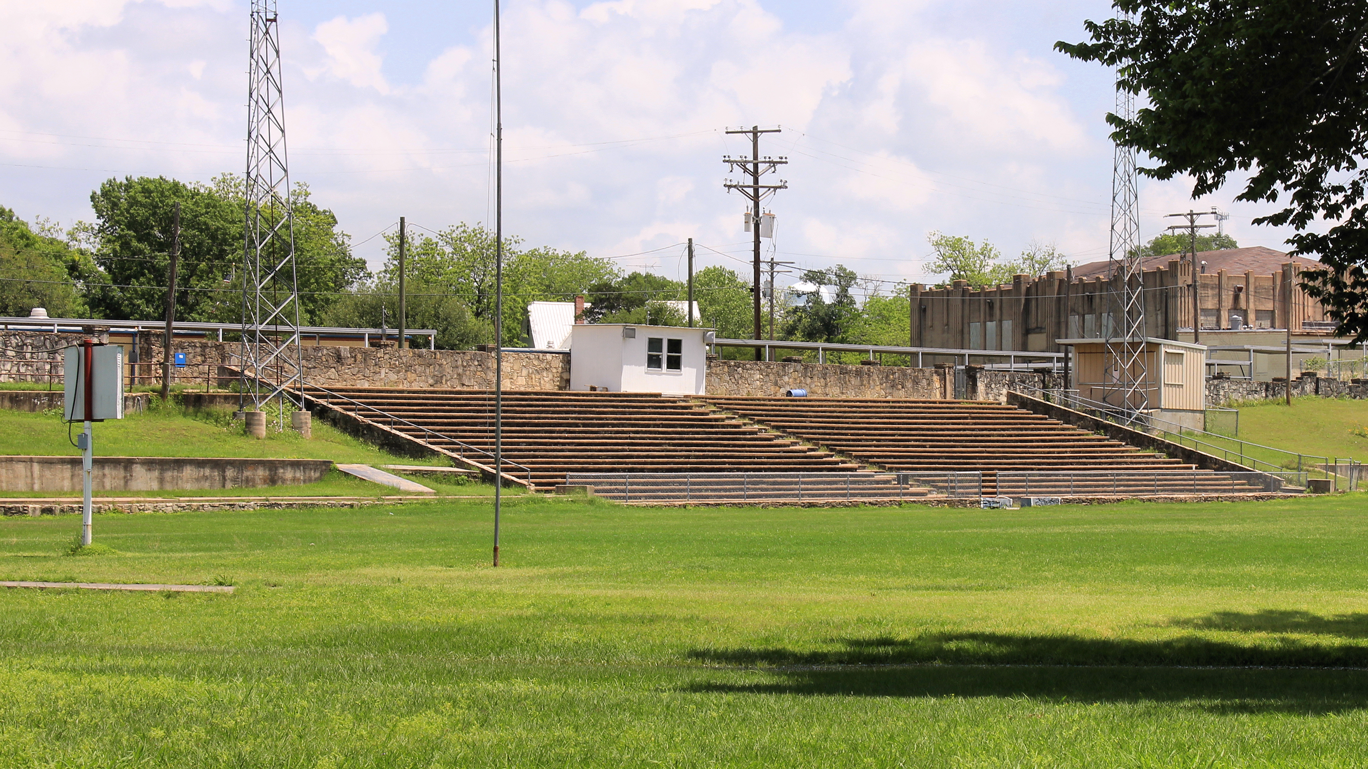 The old football field in Navasota, Texas, United States was built by the Works Progress Administration.